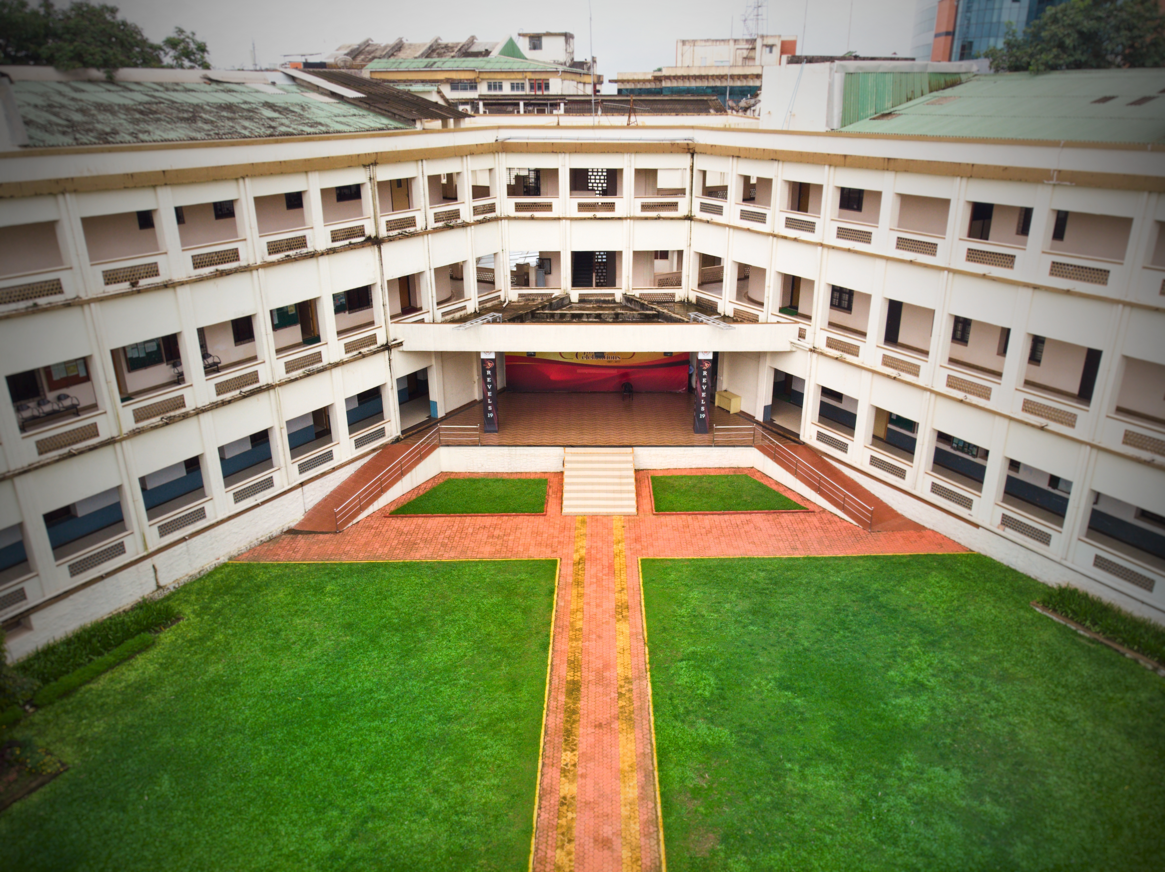 Aerial view of AB1.